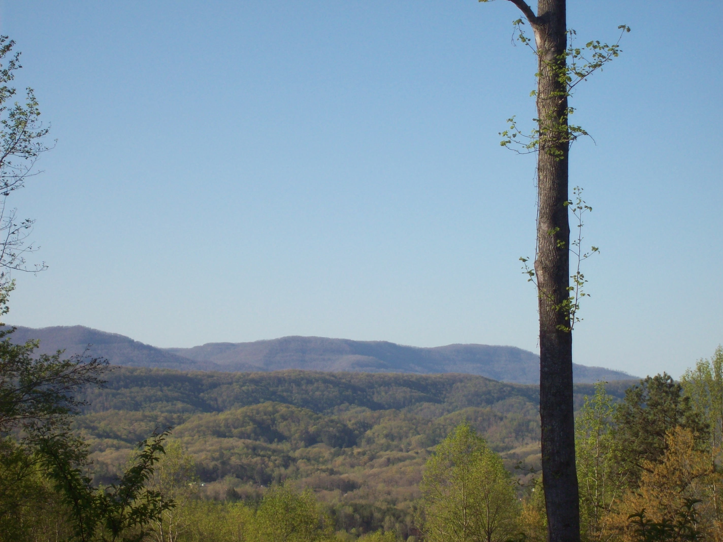 A landscape in East Tennessee.